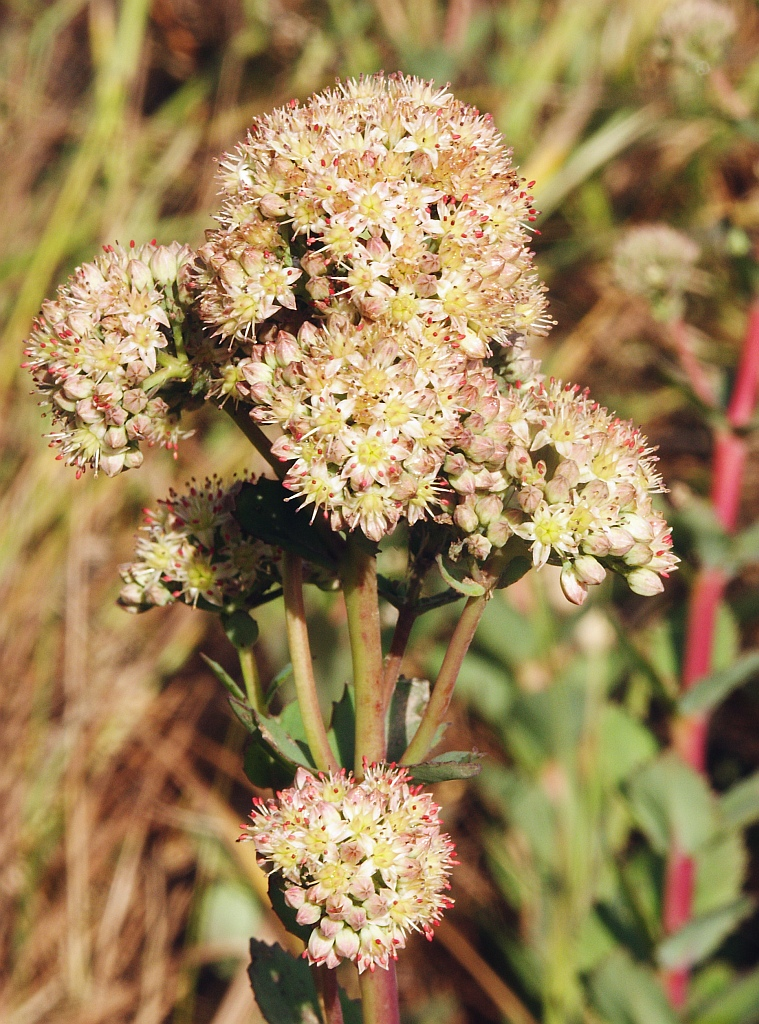 Sedum telephium subsp. maximum, northern Baden-Württemberg, Germany